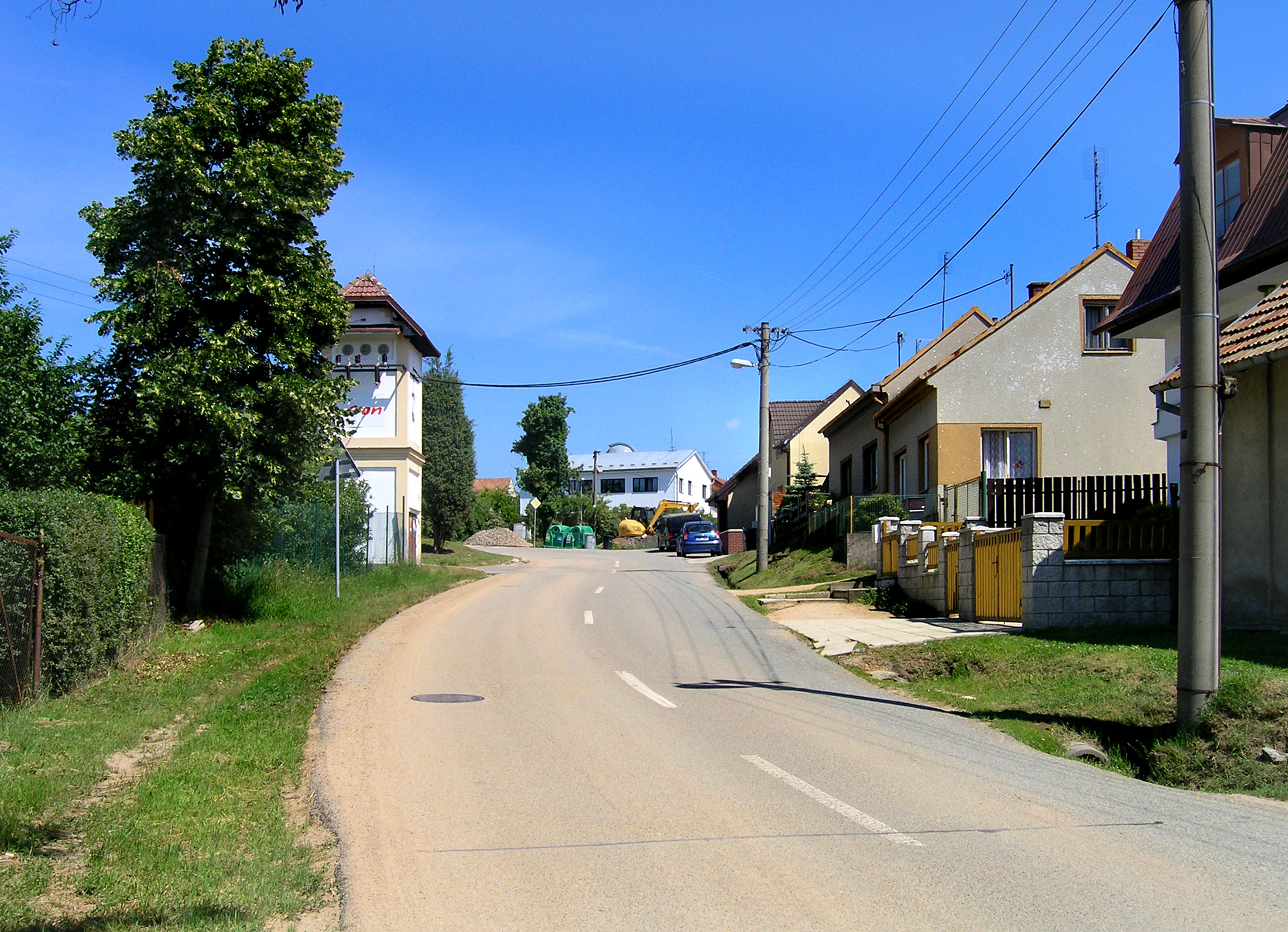 Klimešova street in Ořešín quarter in Brno, Czech Republic